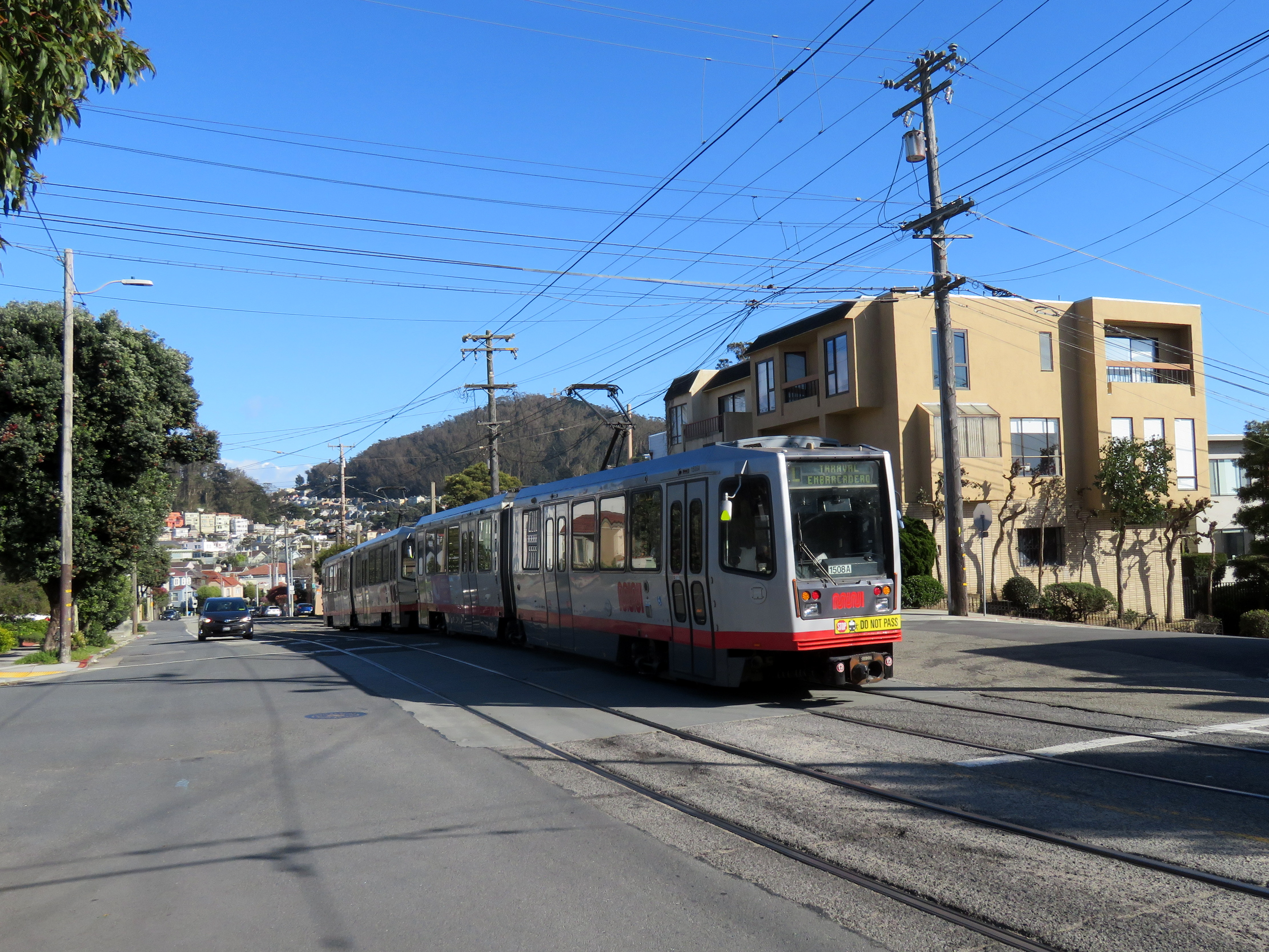 An inbound train passing the future site of Ulloa and 14th Avenue station in February 2019